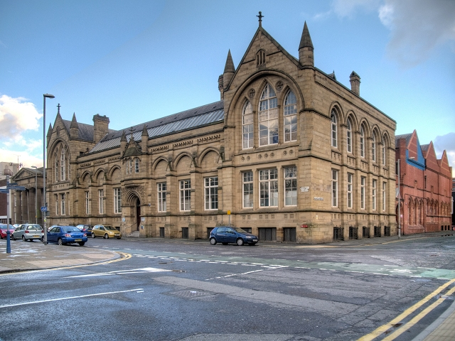 Manchester School of Art Grosvenor Building